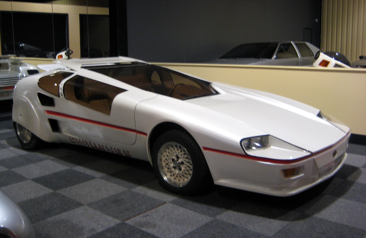 Sbarro Challenge in the Louwman Collection, NL